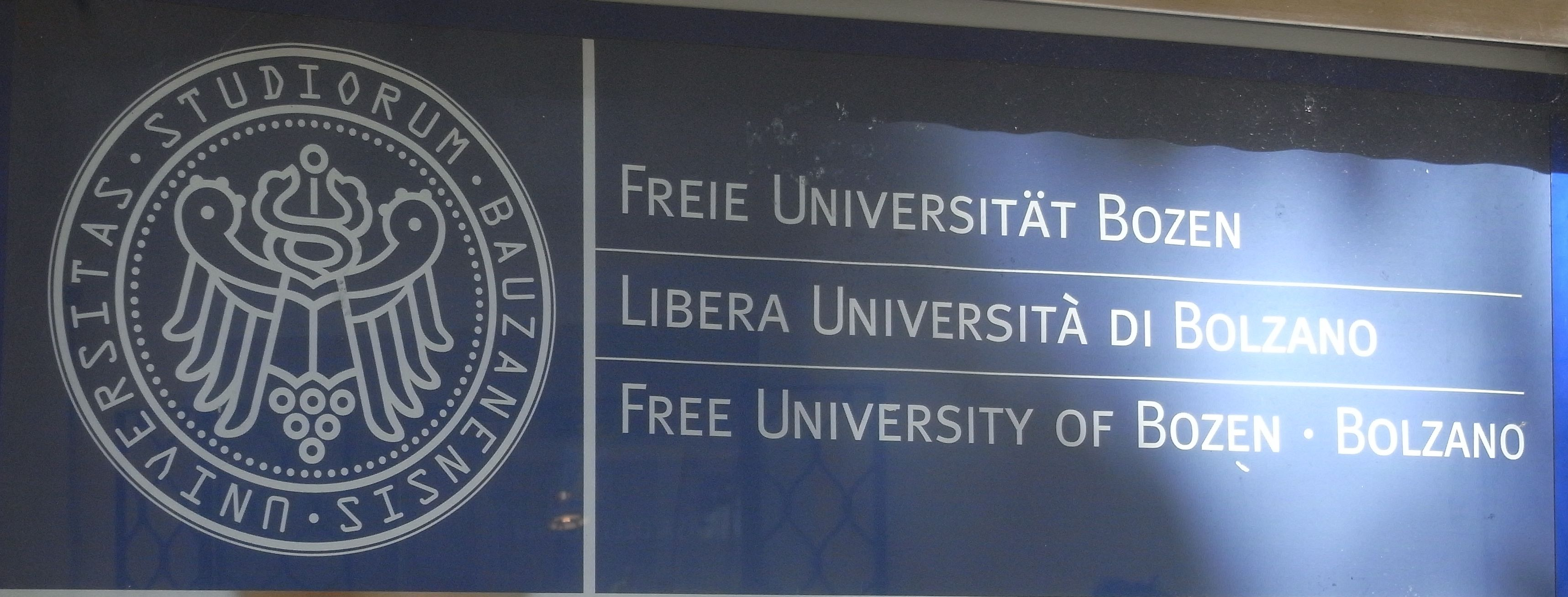 Logo of University of Bozen/Bolzano, picture made in Bruneck